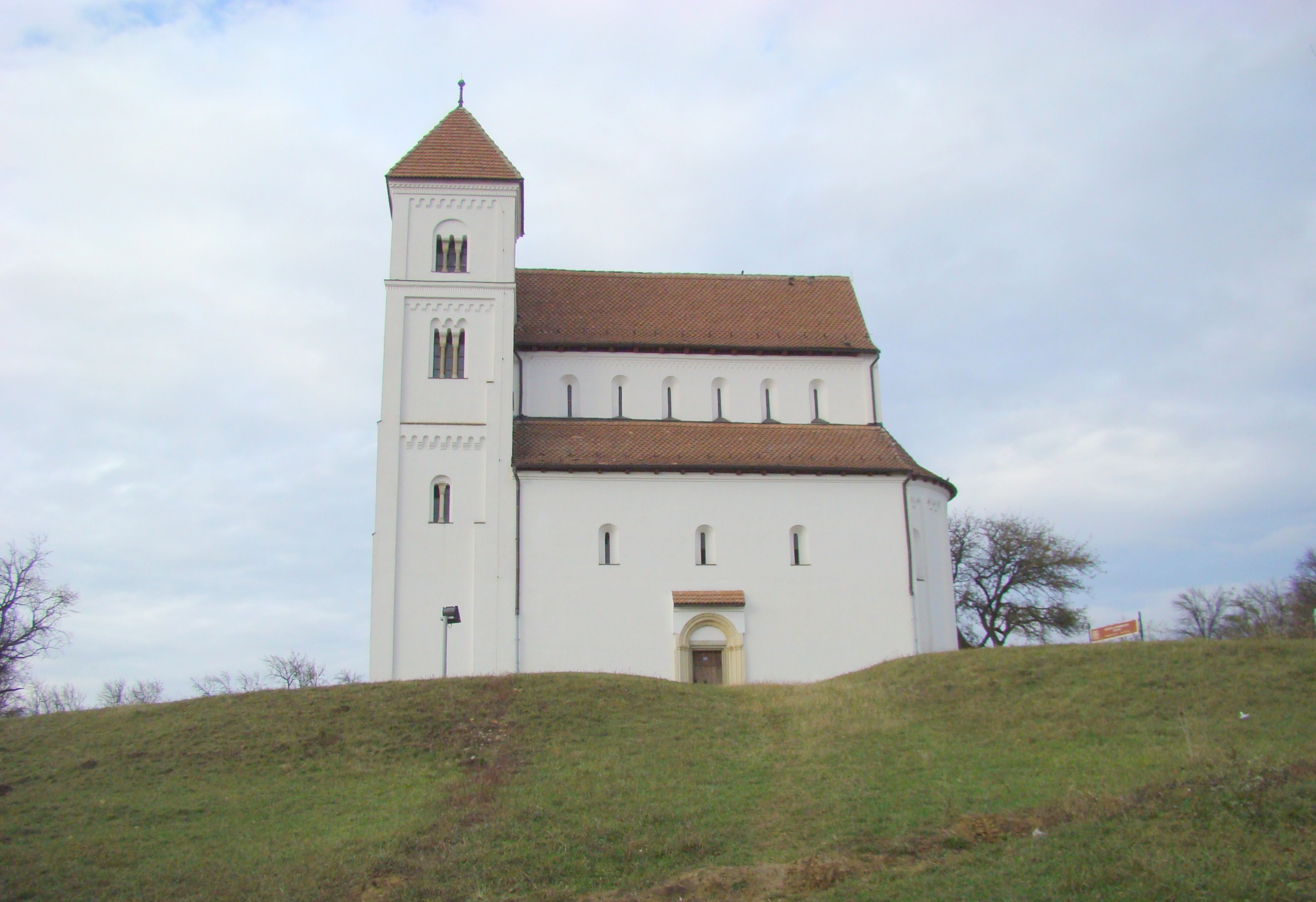 Lutheran church in Herina, Bistrița-Năsăud county, Romania